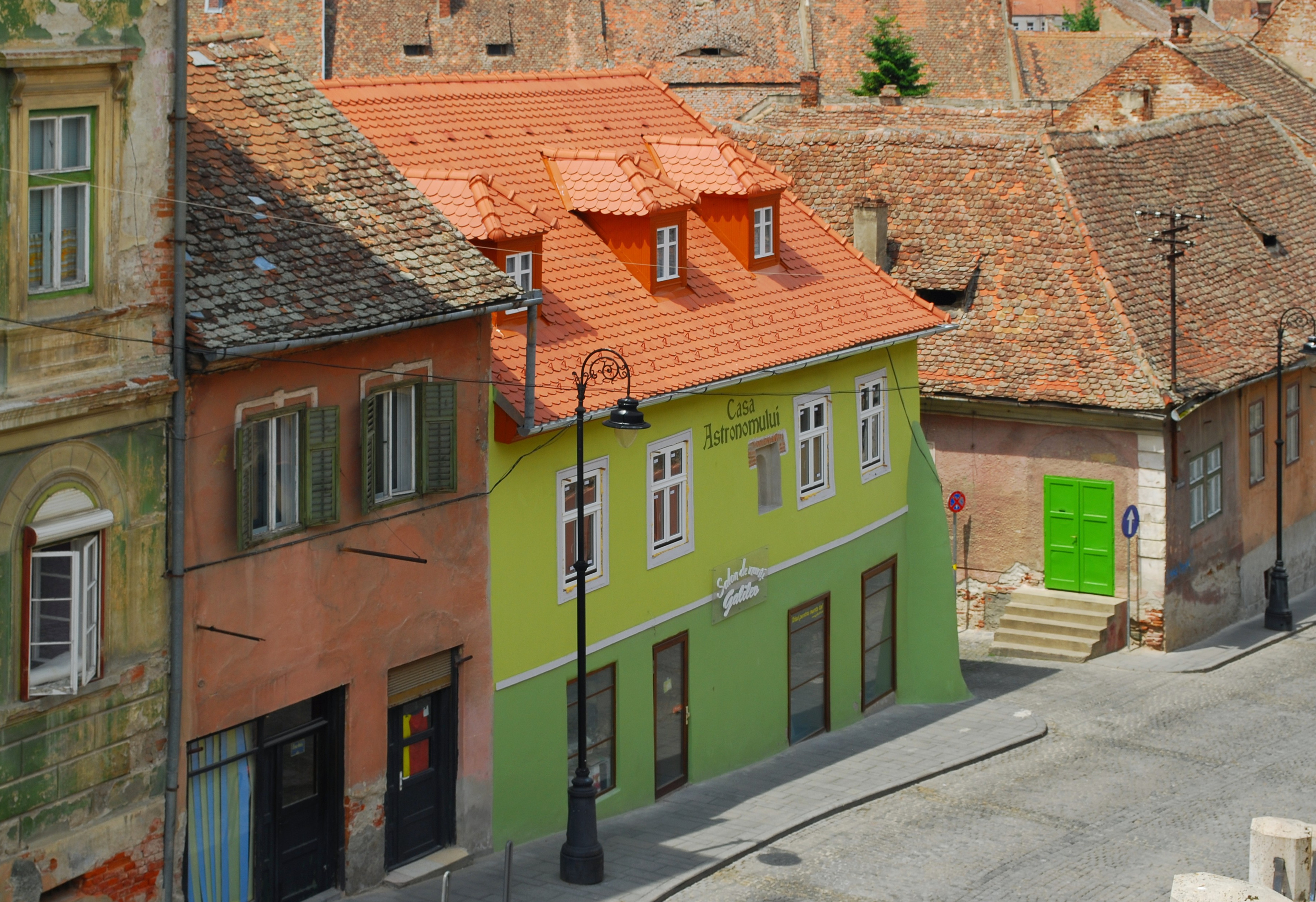 Historical building in 2 Azilului street, Sibiu, Romania.